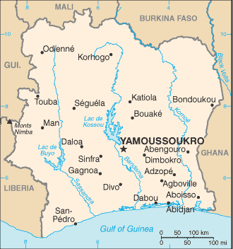 Map of Cote d'Ivoire showing major cities.